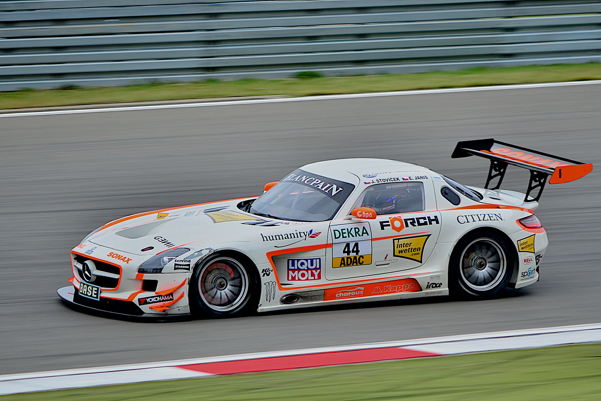 Photo taken during the 13th run of the ADAC GT Masters Championship at the Nürburgring Grand-Prix Course 2012